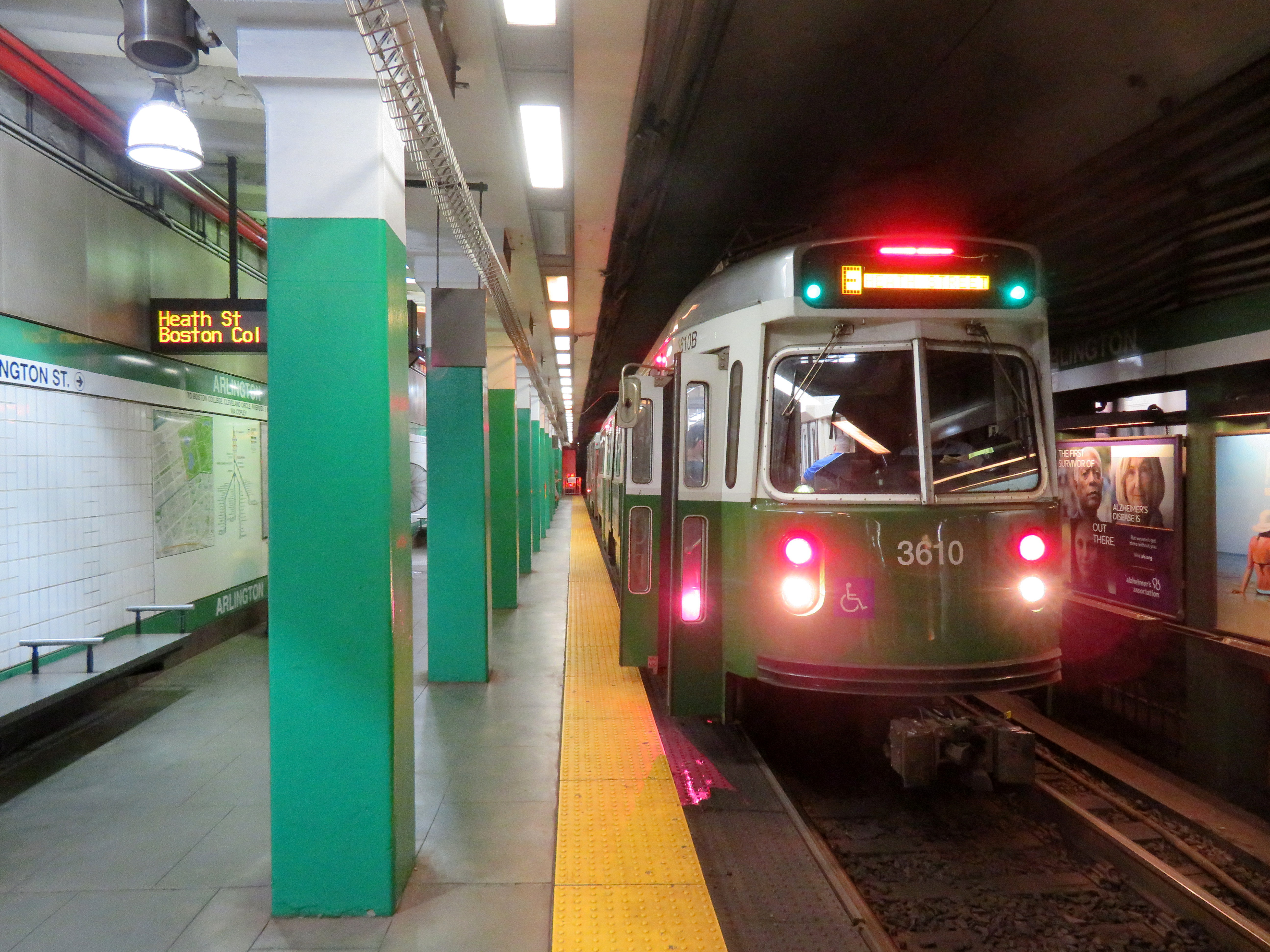 An outbound train at Arlington station in July 2019